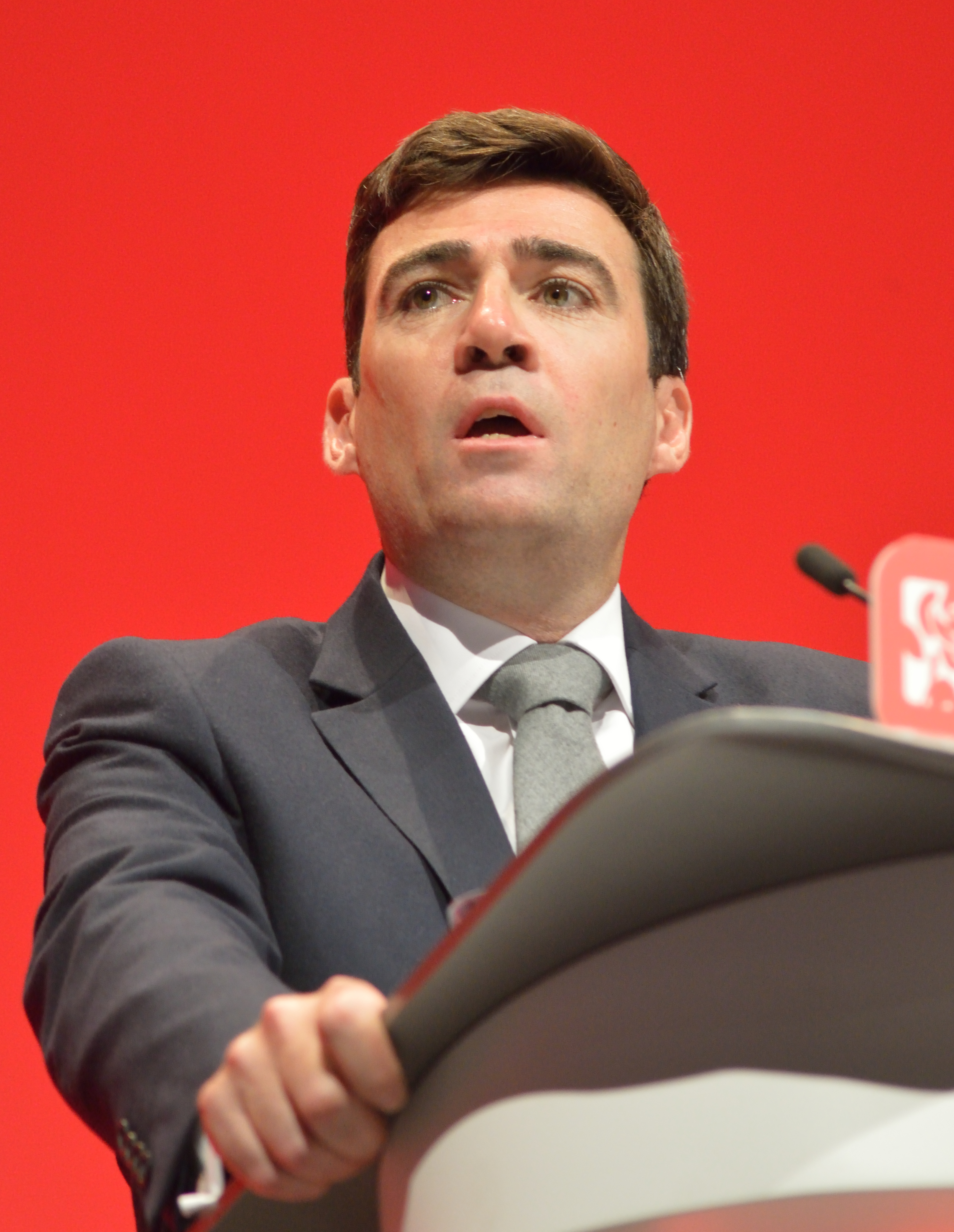 Andy Burnham giving his final Shadow Home Secretary speech at the 2016 Labour Party Conference in Liverpool. Burnham had already announced he would be standing in the Mayor of Greater Manchester election in 2017.